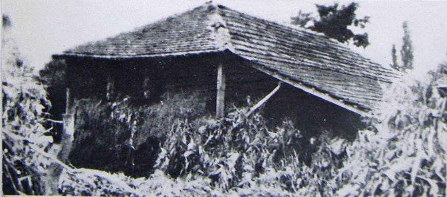 Menkov's hut in Kumanovo, where was formed Kumanovo partisan detachment, 1941. This media file is produced by Wikipedian in Residence in Category:Wikipedian in Residence at DARM in 2016.